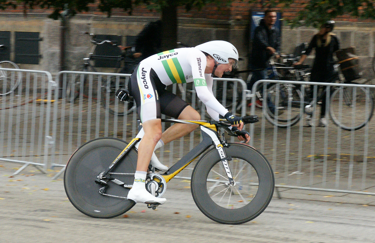 Luke Durbridge Australian road and track cyclist during 2011 UCI Road World Championships in Copenhagen, Time trial Under 23 Men, where Luke Durbridge finish first, winning the world championship 2011